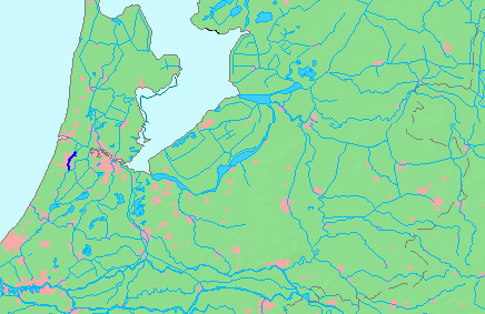 Locator map of Spaarne River, the Netherlands